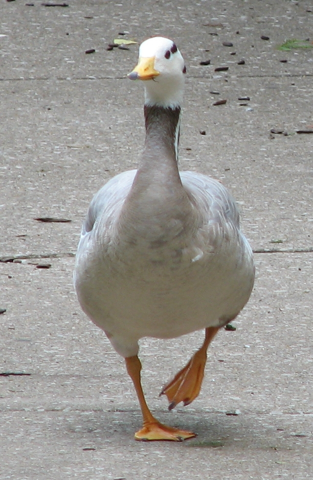 Bar Headed Goose